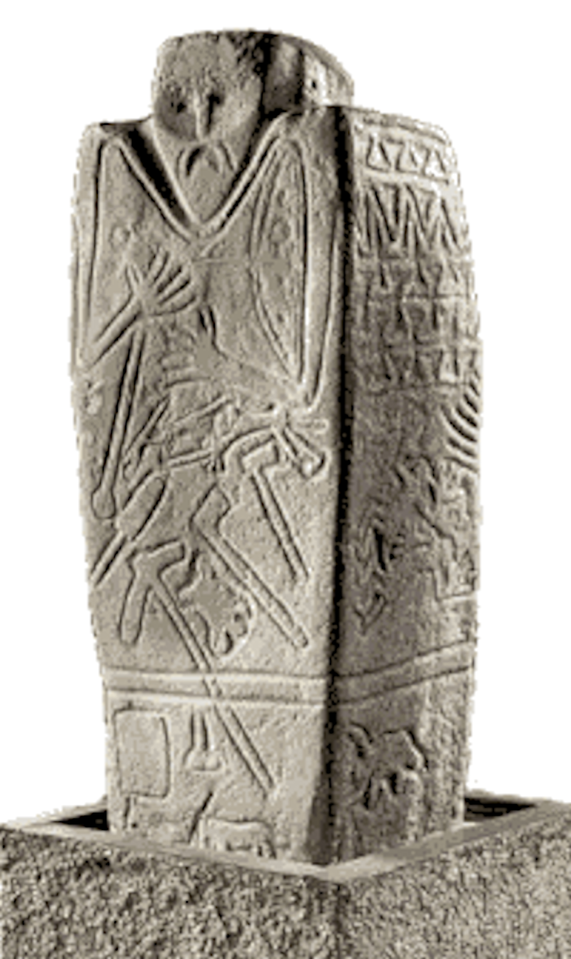 Kernosovsky Idol, III millennium BC; Dnipropetrovsk Historical Museum